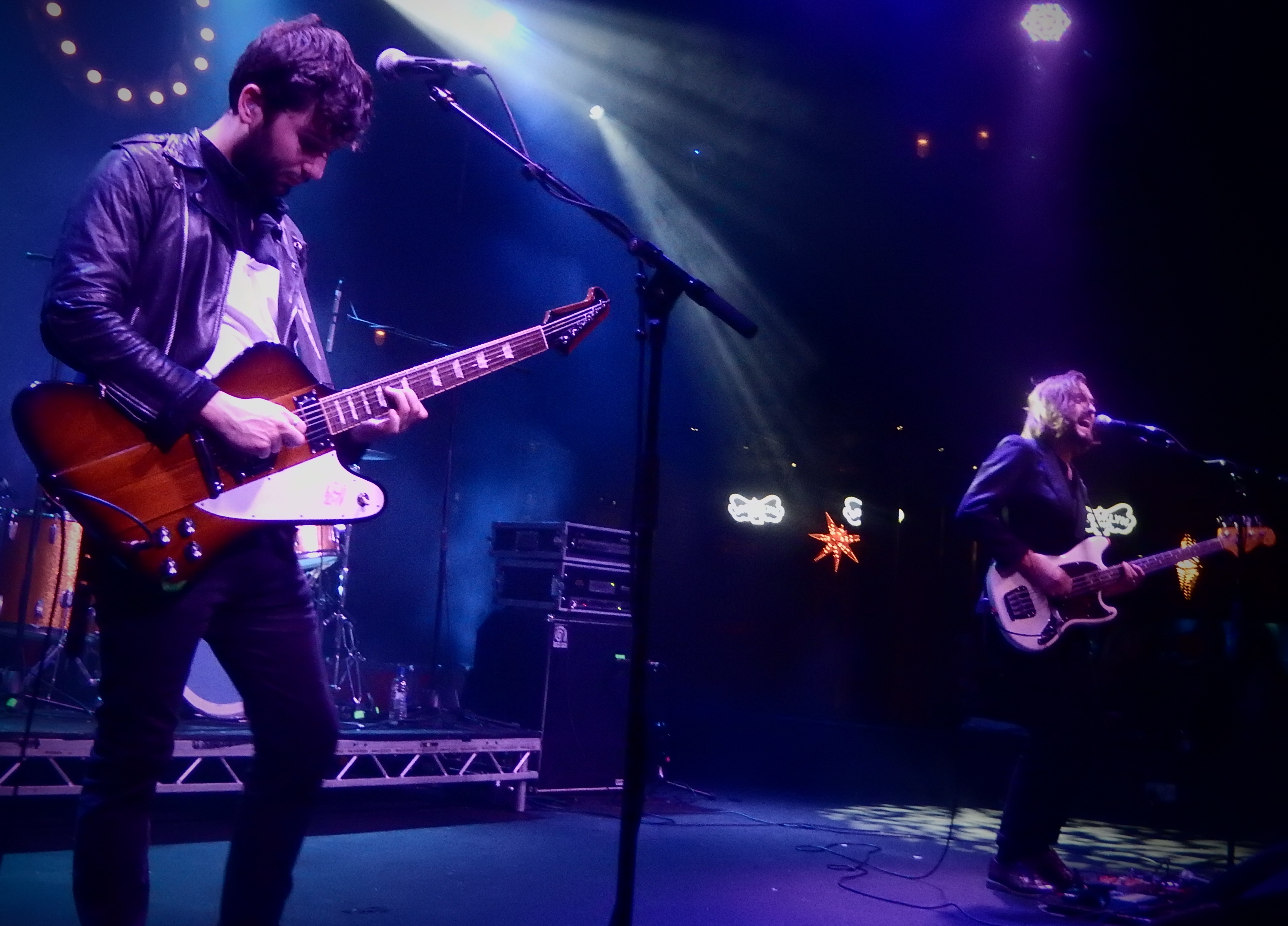 The Family Rain live at Brooklyn Bowl, O2 Arena, London 2015.